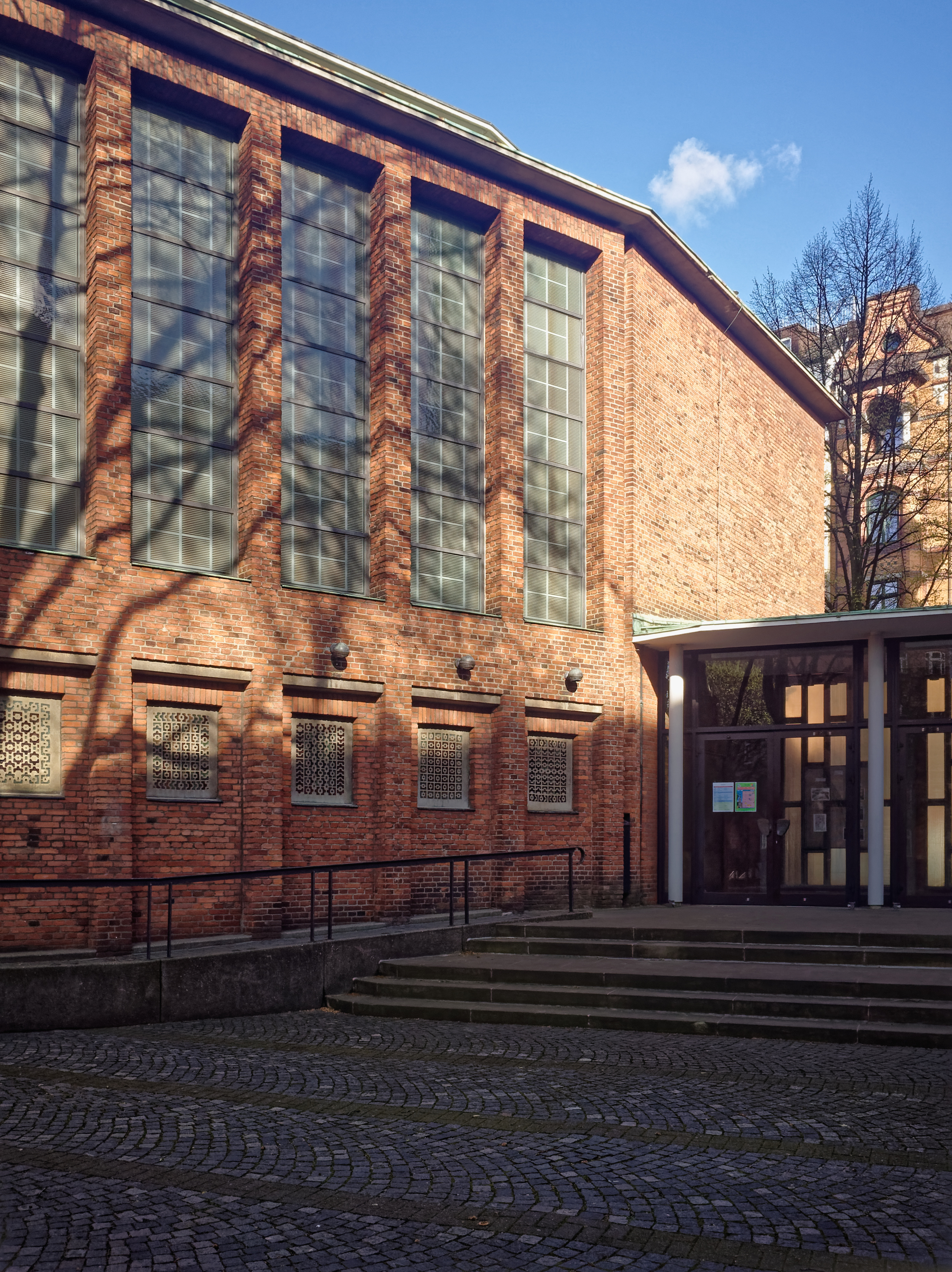 Trinity church, Hamburg-St.Georg, churchyard and main entranceThis is a photograph of an architectural monument.